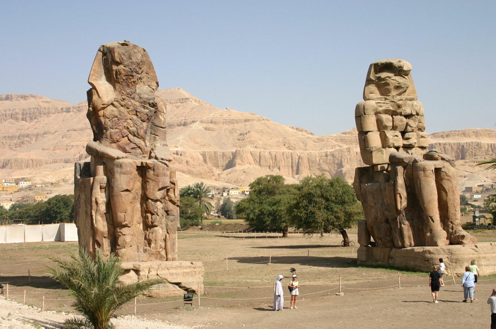 Statue of Amonotep III on the West Bank at Luxor